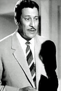 A medium shot of Egyptian Actor Imad Hamdy in 1962, cropped from a scene with Faten Hamama